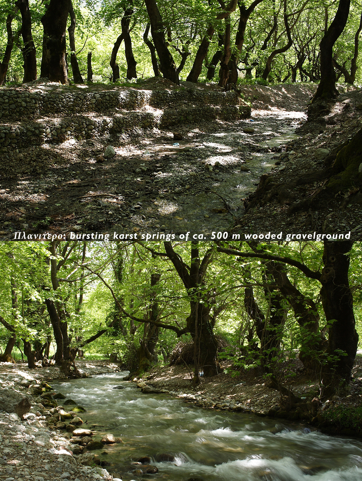 karst springs, Achaea, Peloponnese. The springs emerge partly from hard and partly from loose sediment, a ground of sandy gravel, well shaded by broad-leaved trees. The water comes from the carbonate Aroania Mountains (1500- 2341 m) and also from joints fed by the katavothren (Greek term for ponors/sinkholes) of the Feneos depression. On a surface of only 30x800 m many tiny outflows result in a remarkable large brook: River Aroanios. Unfortunately this rare kind of a geotope is not protected at all! No directives, no administrative surveillance! The place is dominated by tourist-commercial interests.